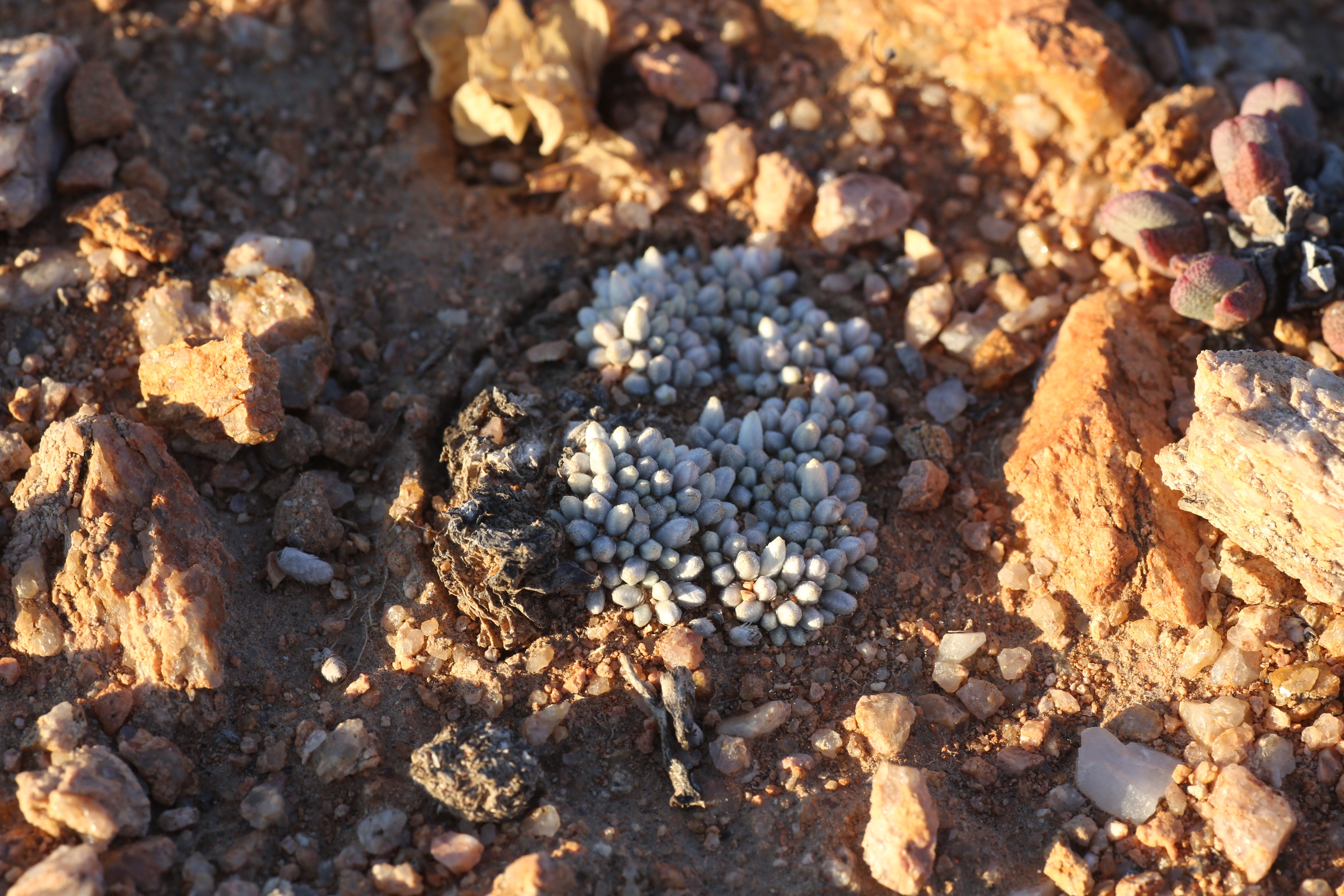 Farm in the vicinity of Springbok, Namaqualand, Northern Cape, South Africa